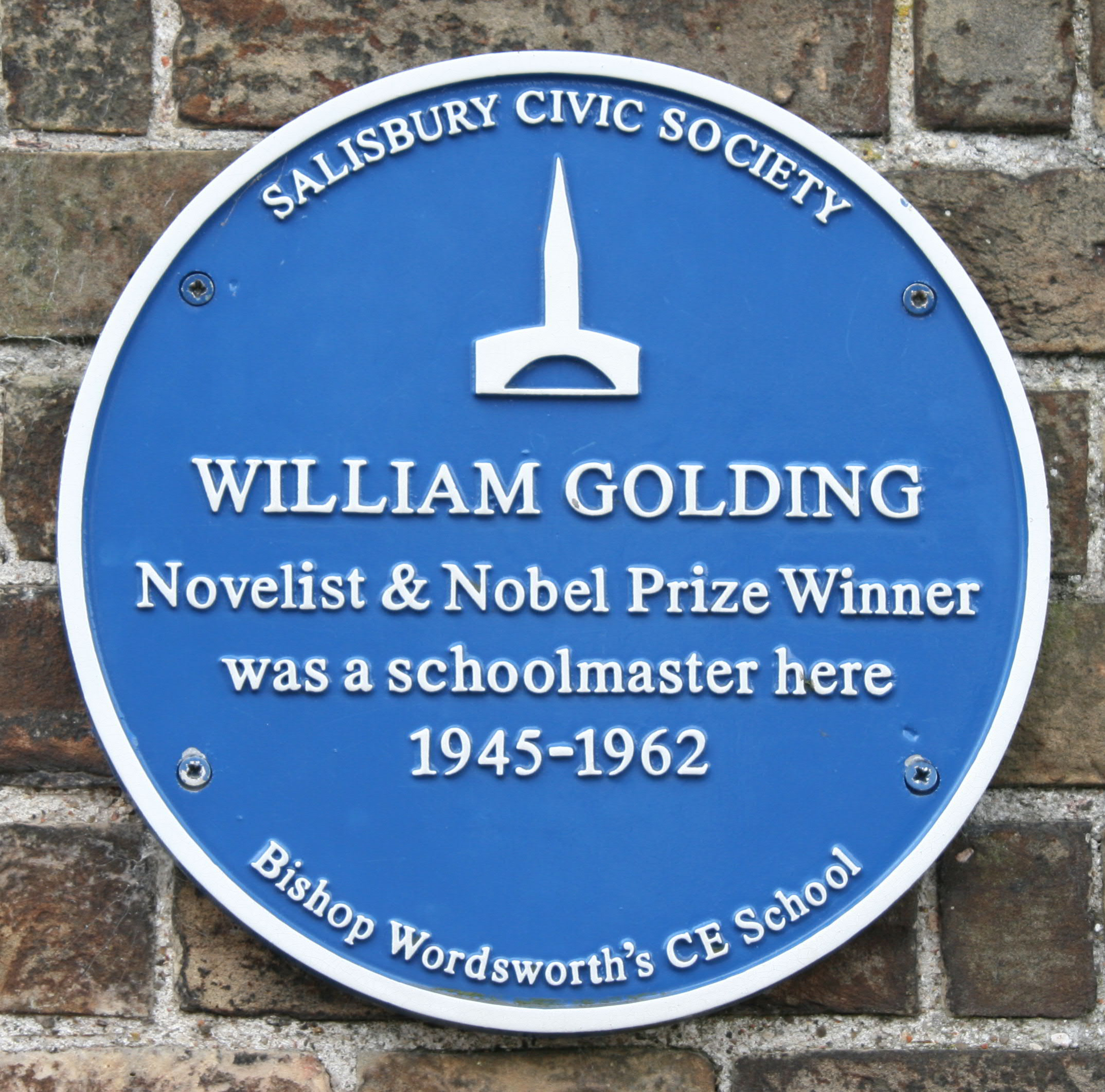 Blue Plaque at Bishop Wordsworth's School, Salisbury to commemorate author William Golding's service there as a teacher